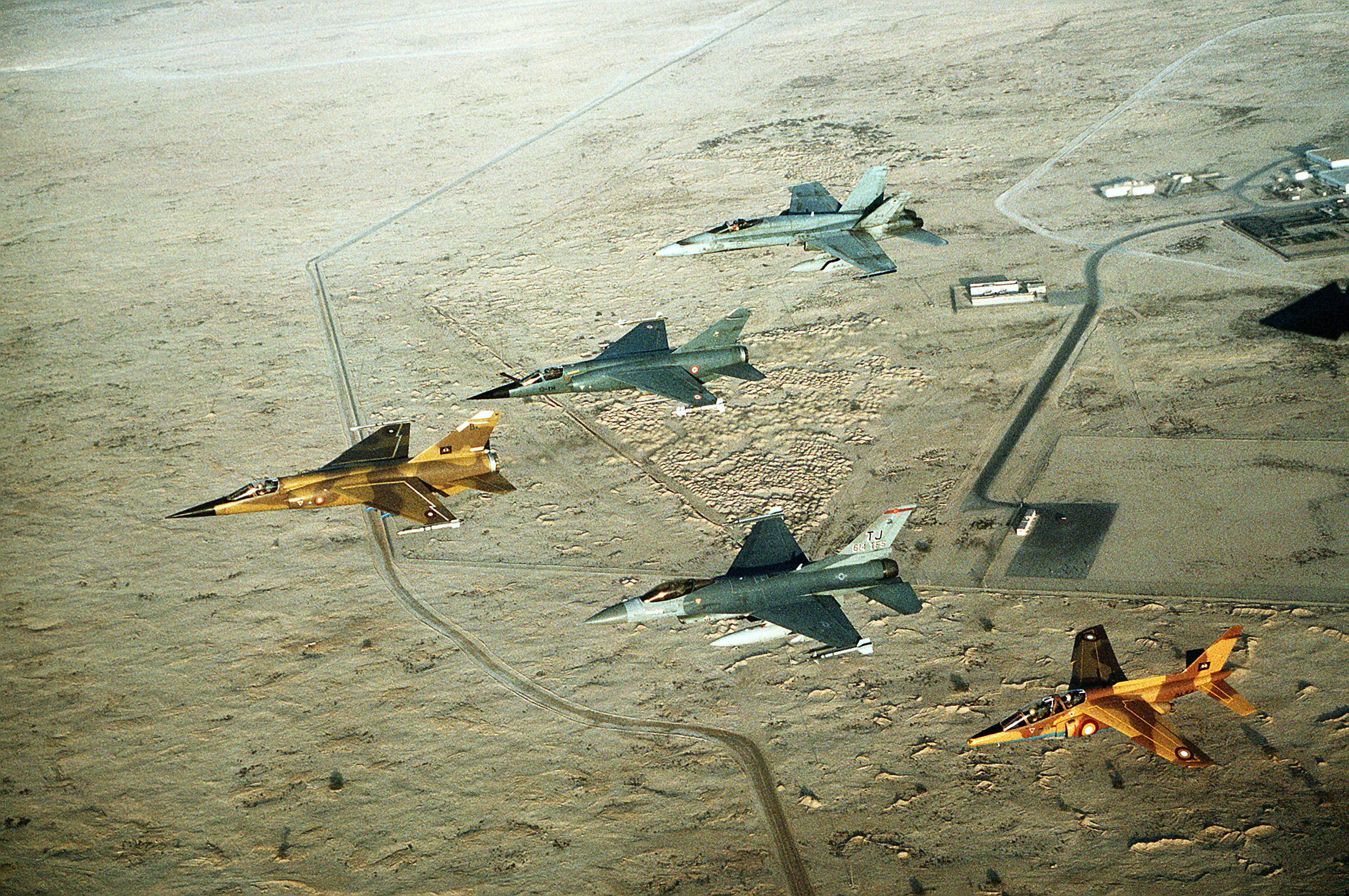 An air-to-air view of a multinational group of fighter jets, including, left to right, a Qatari F-1 Mirage, a French F-1C Mirage, a U.S. Air Force F-16C Fighting Falcon from the 401st Tactical Fighter Wing, a Canadian CF/A-18A Hornet and a Qatari Alpha Jet, during Operation Desert Shield.